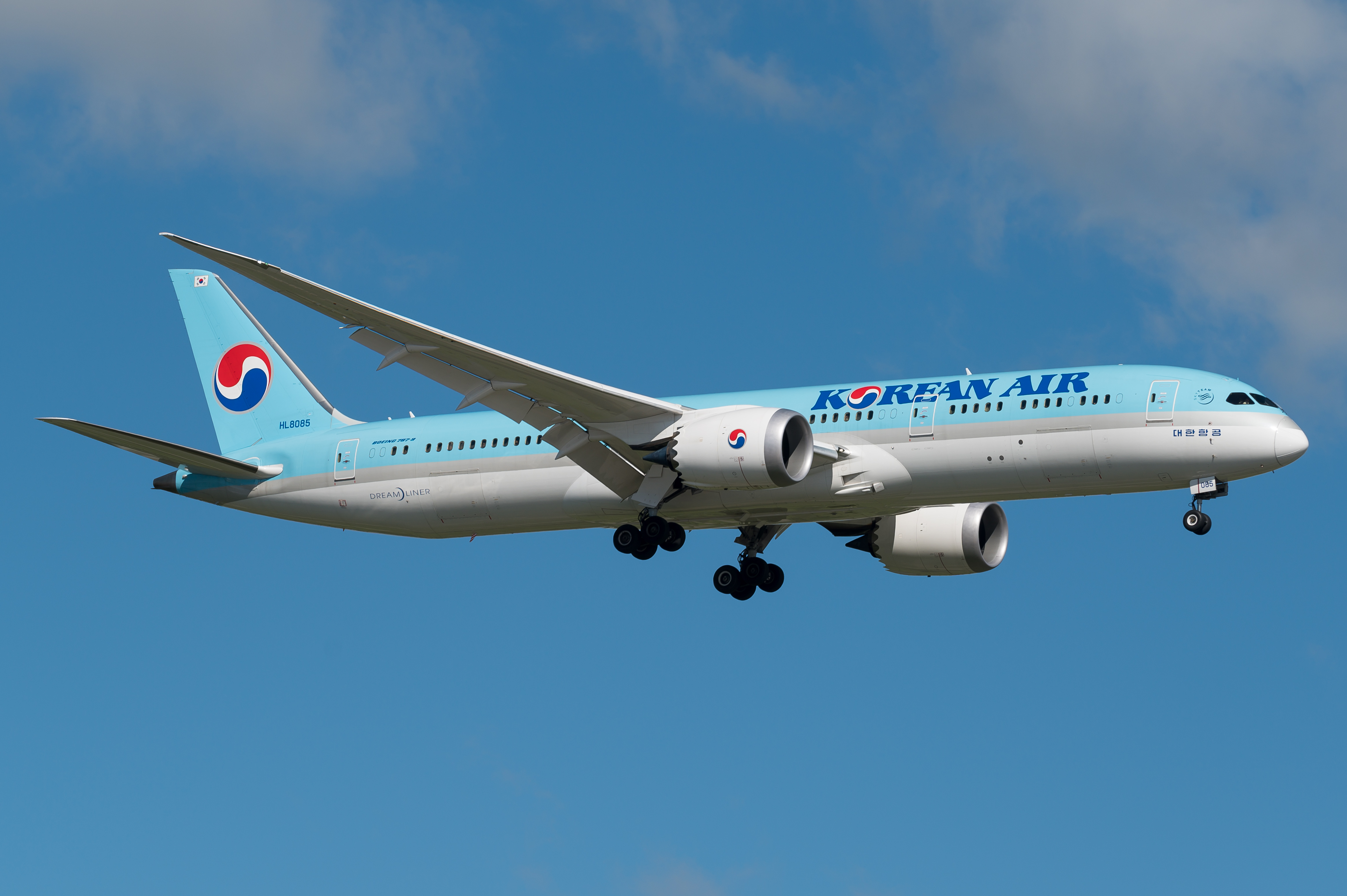 Arriving YYZ